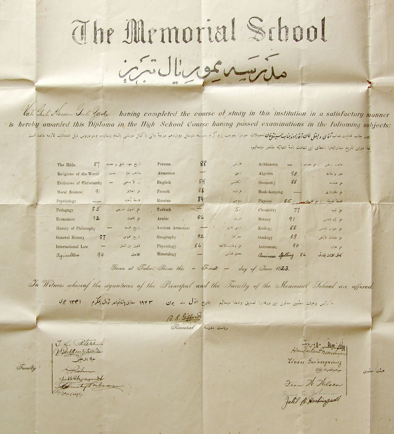 High School Diploma, Valigholi Dilfanian - Memorial High School, Tabriz, Iran. Dated June First 1923. Lessons/Subjects: Bible, Religions of the World, Evidence of Christianity, Moral Science, Psychology, Pedagogy, Economics, History of Philosophy, General History, Agriculture, International Law, Persian, Armenian, English, French, Russian, Turkish, Arabic, Ancient Armenian, Geography, Physiology, Mineralogy, Arithmatic, Algebra, Geometry, Book keeping, Physiscs, Chemistry, Botanic, Zoology, Geology,Business